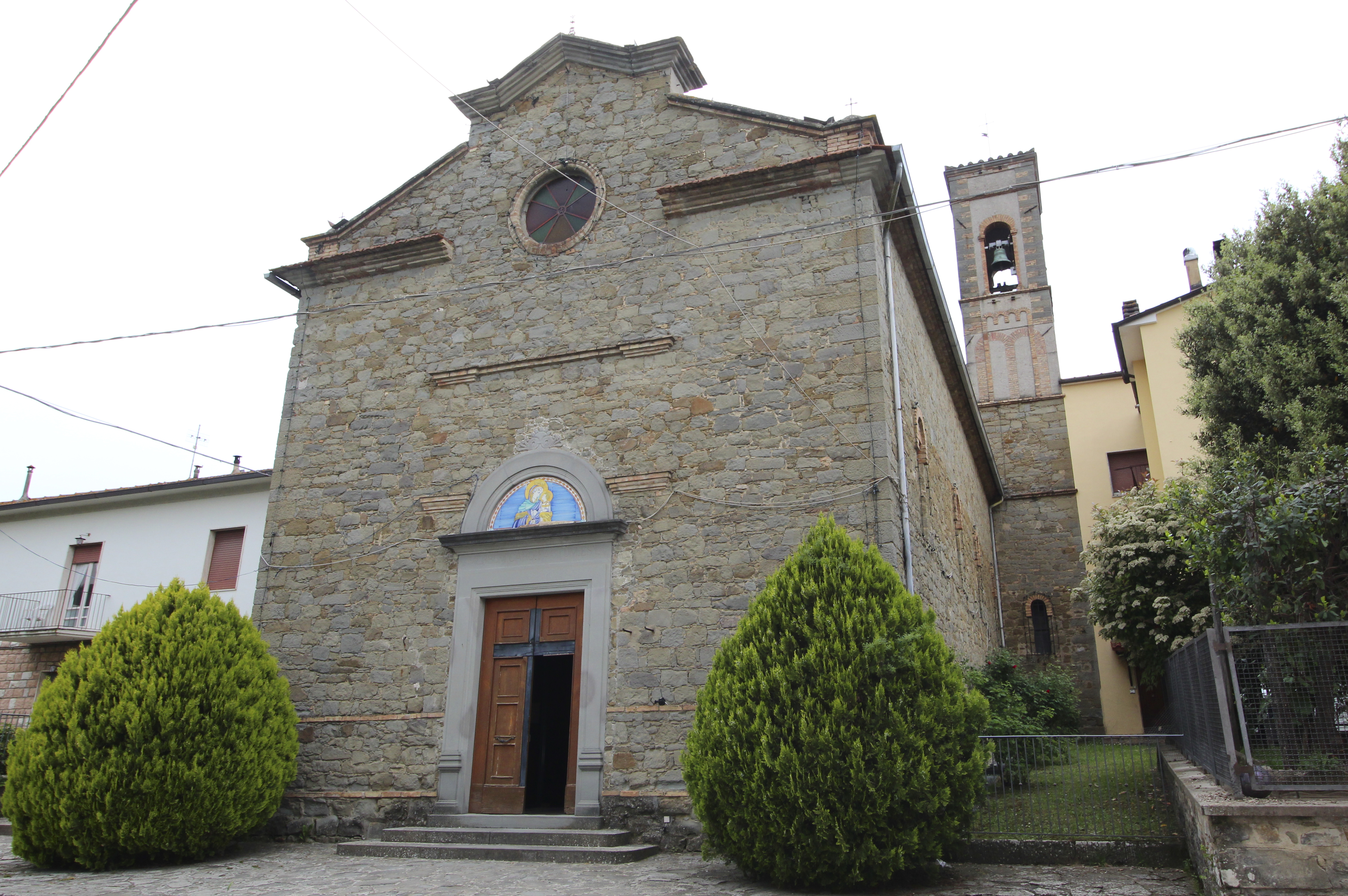 Church Santa Maria del Carmine, Mercatale, hamlet of Cortona, Province of Arezzo, Tuscany, Italy